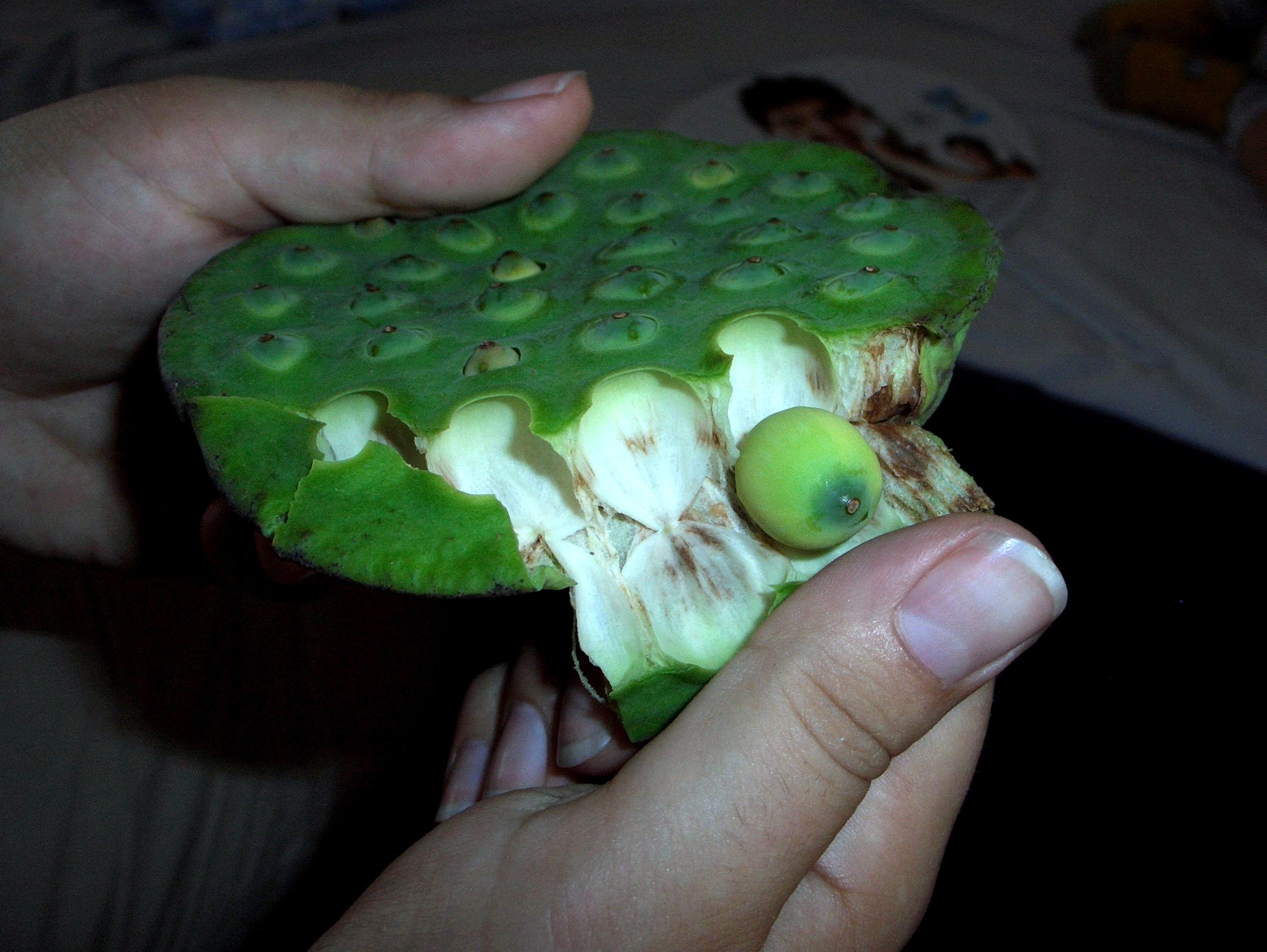 Lotus seeds (Image taken by User:Tobixen, 2005-07